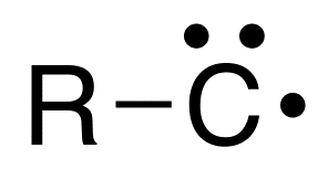 Structure of a generic carbyne in the doublet (mono-radical) form.